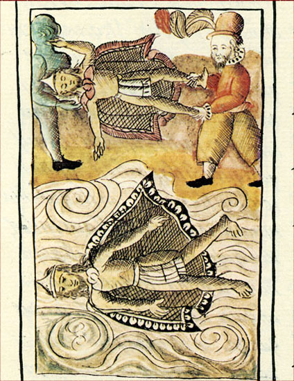 Florentine Codex, ca. 1575-77